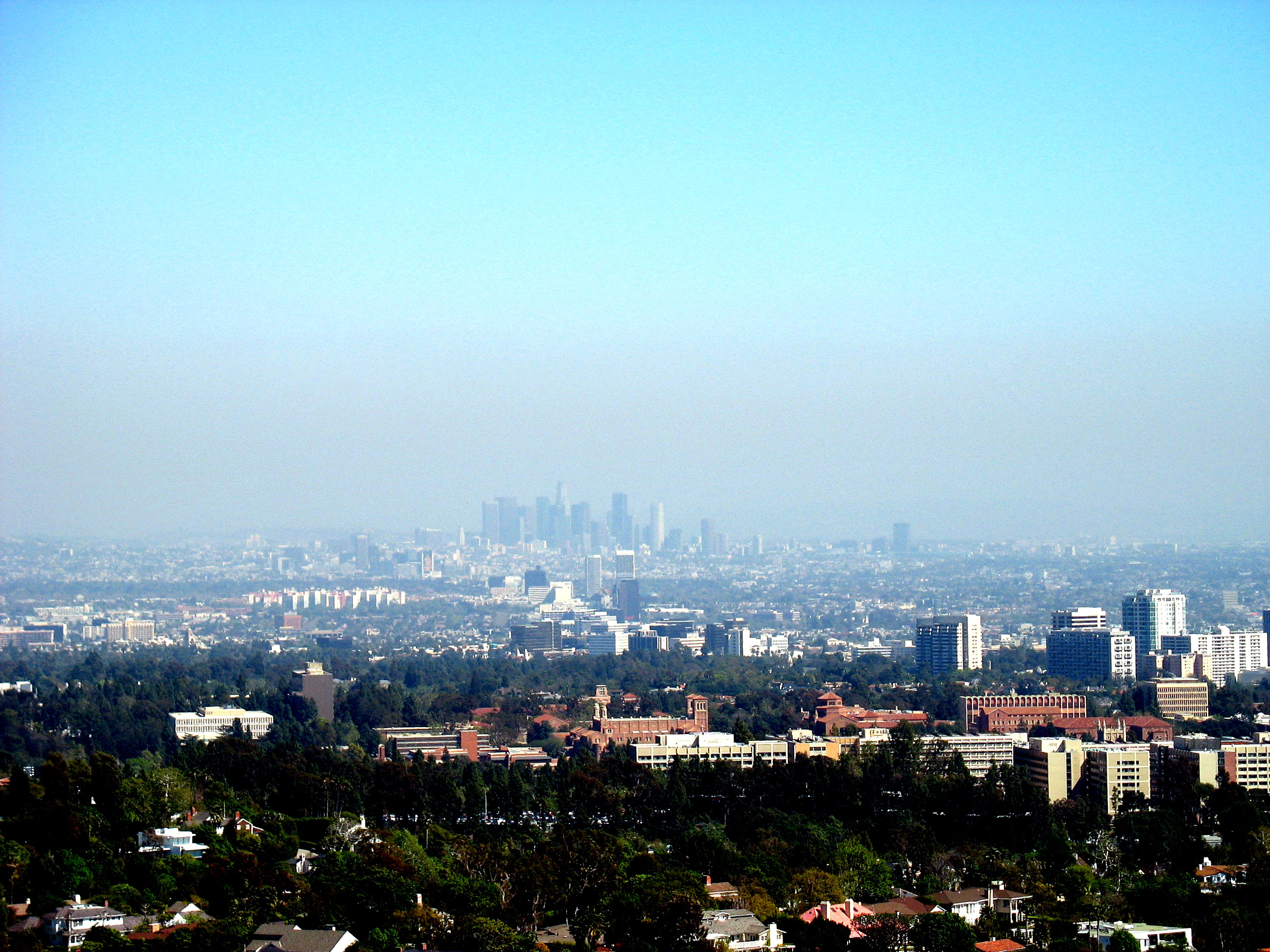 The red brick buildings of U.C.L.A. are in the foreground, Westwood to the right, and downtown Los Angeles in the hazy distance.